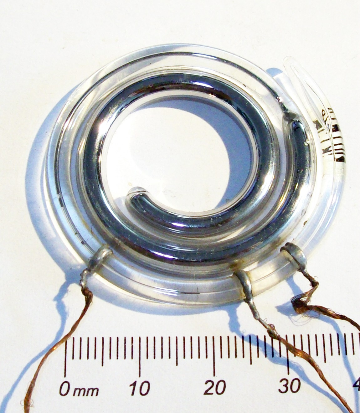 mercury contact thermometer switching points at 40 and 42 degree Centigrade